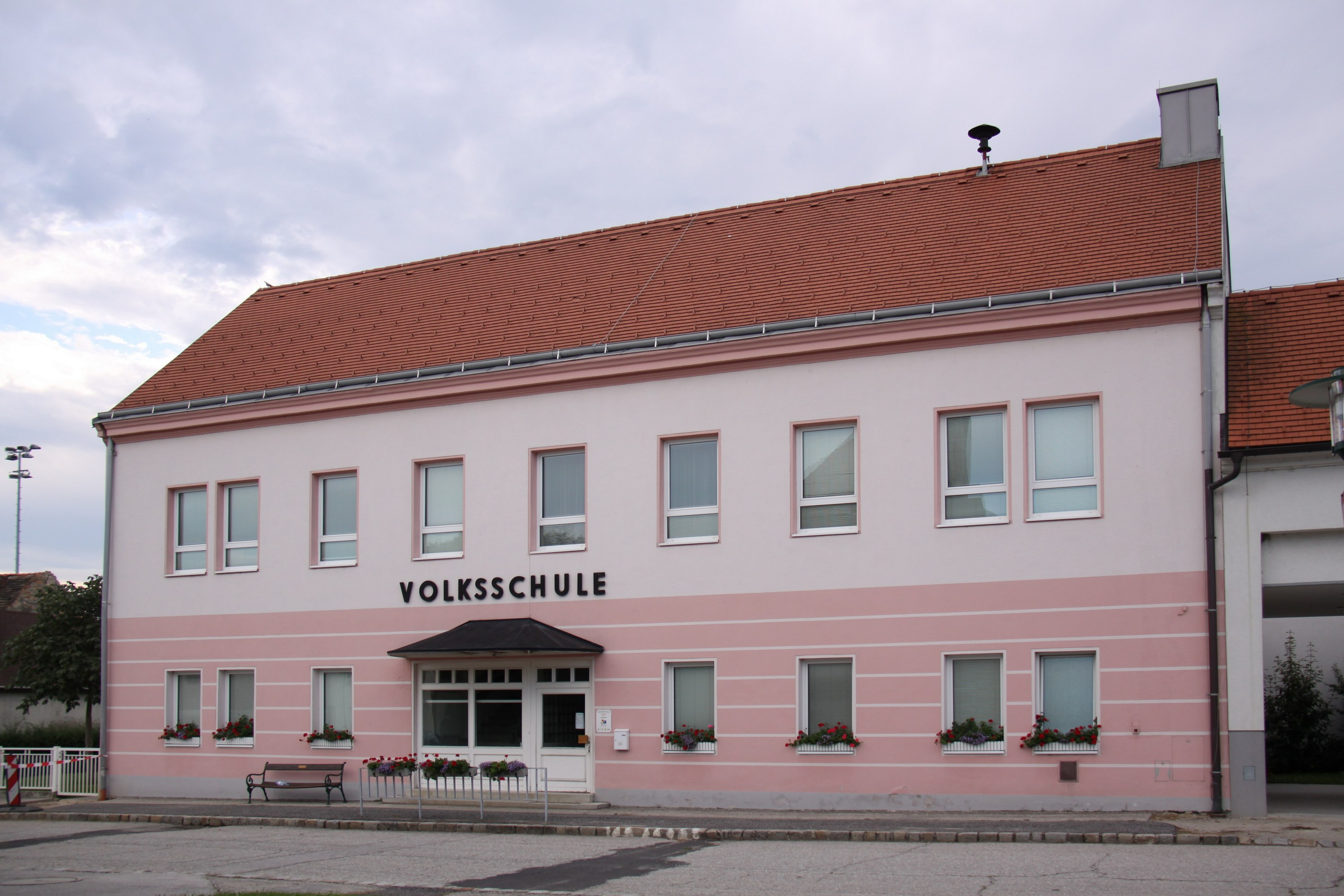 Volksschule - Hirm Object location47° 47′ 13.33″ N, 16° 27′ 15.4″ E